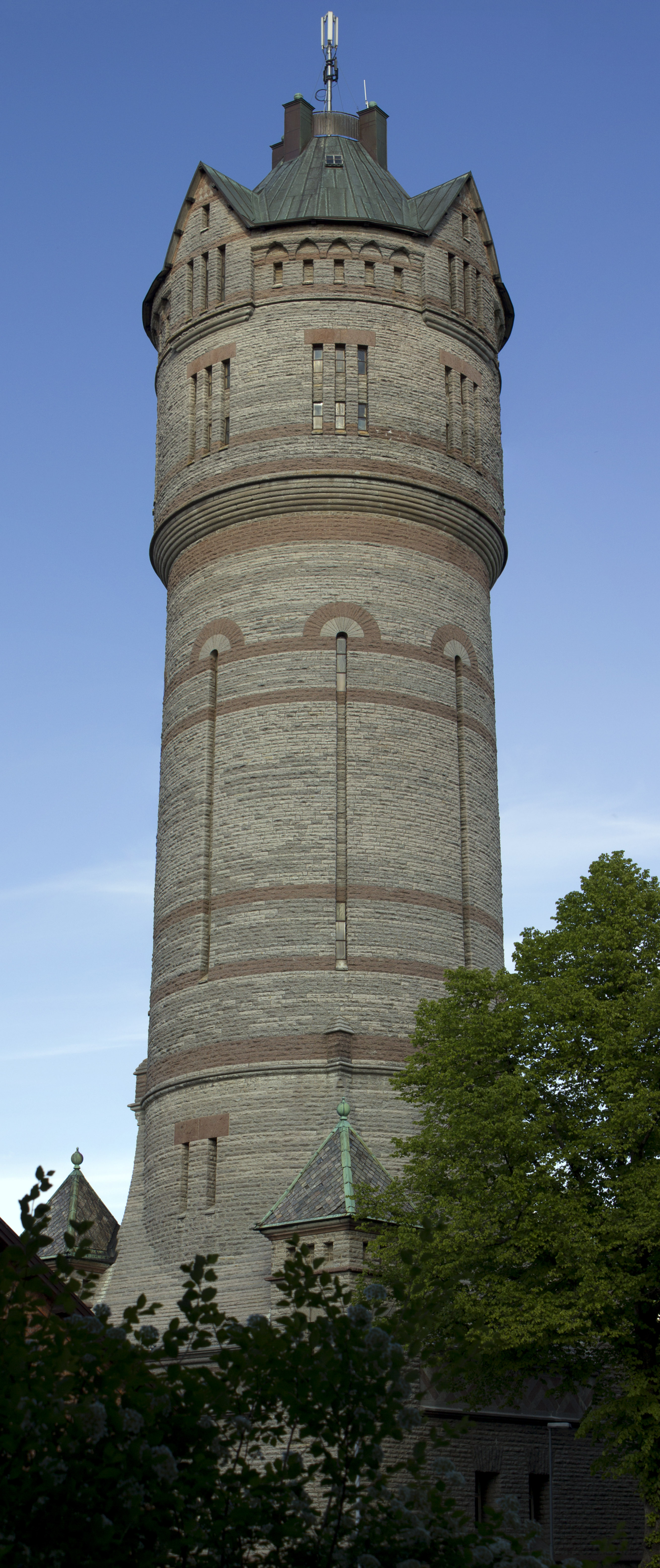 Gamla vattentornet (The Old Water tower) in Lidköping, Sweden photographed from west. Panorama from two images taken in sequence.